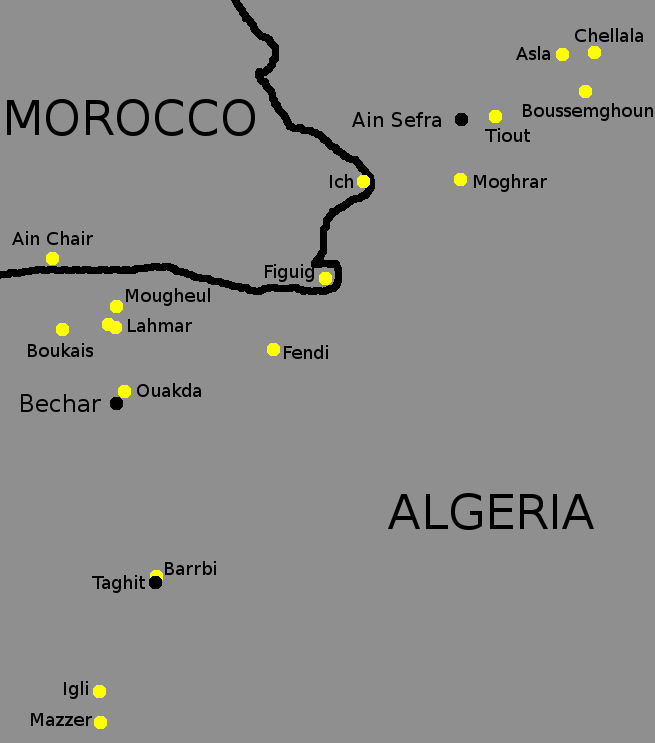 A map of South Oran Berber (ksours sud-oranais). For sources, see article.